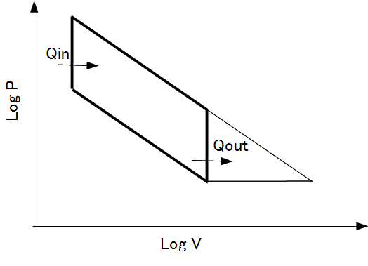 conceptual explanation of Atkinson cycle by P-V diagram (Log-Log base)